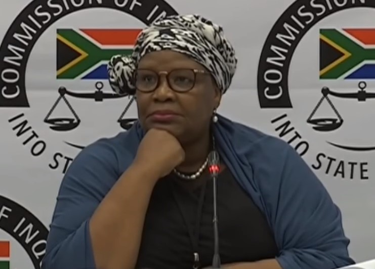 Former ANC MP Vytjie Mentor is back on the stand at the state capture inquiry on Tuesday. (02:01:25)